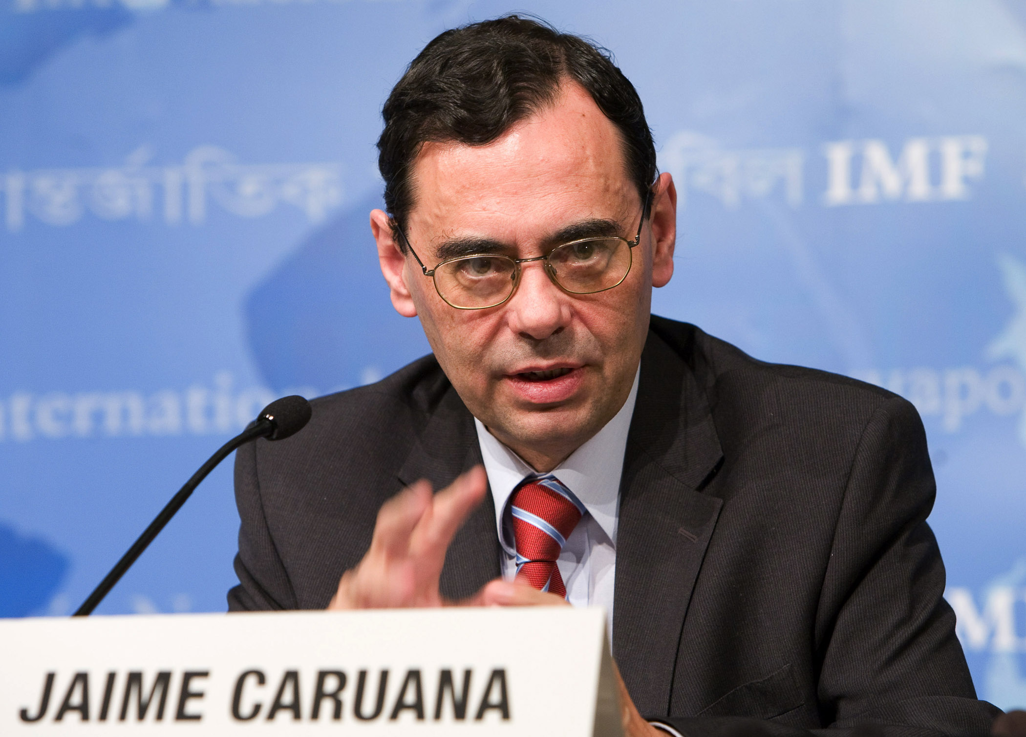 Former Governor of the Bank of Spain Jaime Caruana during a news conference on the Global Financial Stability Report at the IMF Headquarters in Washington, DC April 8, 2008.